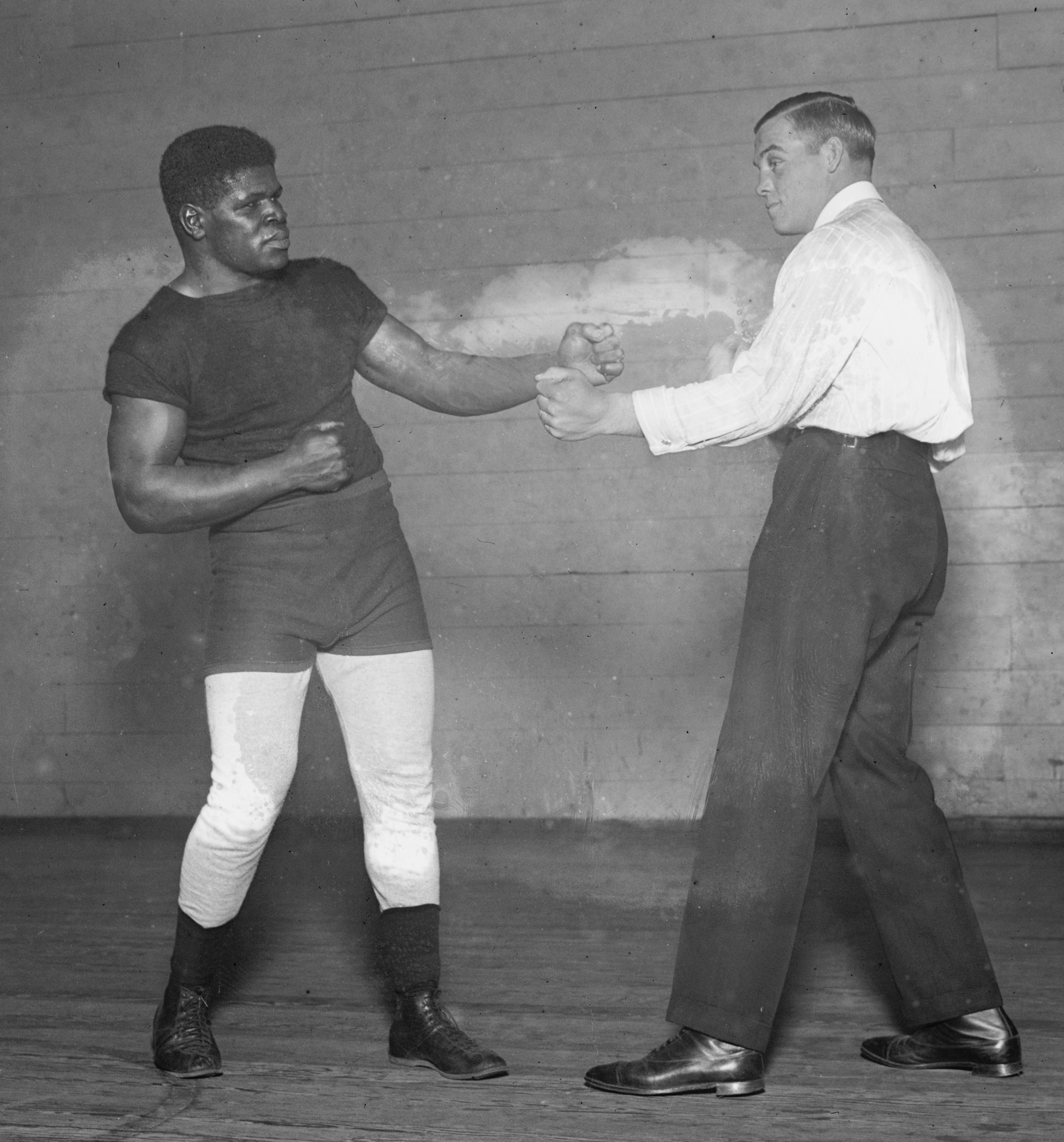 Bain News Service,, publisher. Sam McVey & Reich 1914 (date created or published later by Bain) 1 negative : glass ; 5 x 7 in. or smaller. Notes: Title and date from data provided by the Bain News Service on the negative. Photograph shows African American heavyweight boxer Sam McVey (1890-1963) and boxer Al Reich (1890-1963). (Source: Flickr Commons project, 2011) Forms part of: George Grantham Bain Collection (Library of Congress). Format: Glass negatives. Repository: Library of Congress, Prints and Photographs Division, Washington, D.C. 20540 USA, General information about the Bain Collection is available at Higher resolution image is available (Persistent URL): Call Number: LC-B2- 3311-9